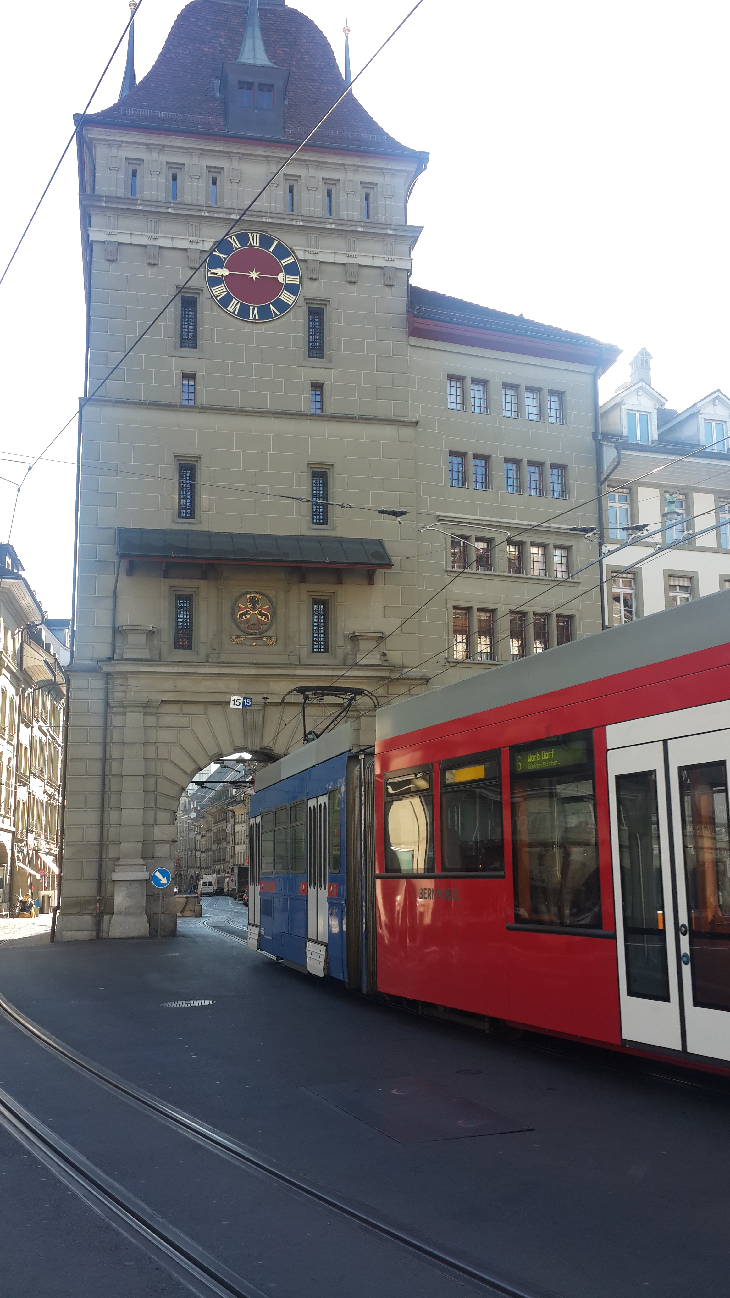 Train of Bern